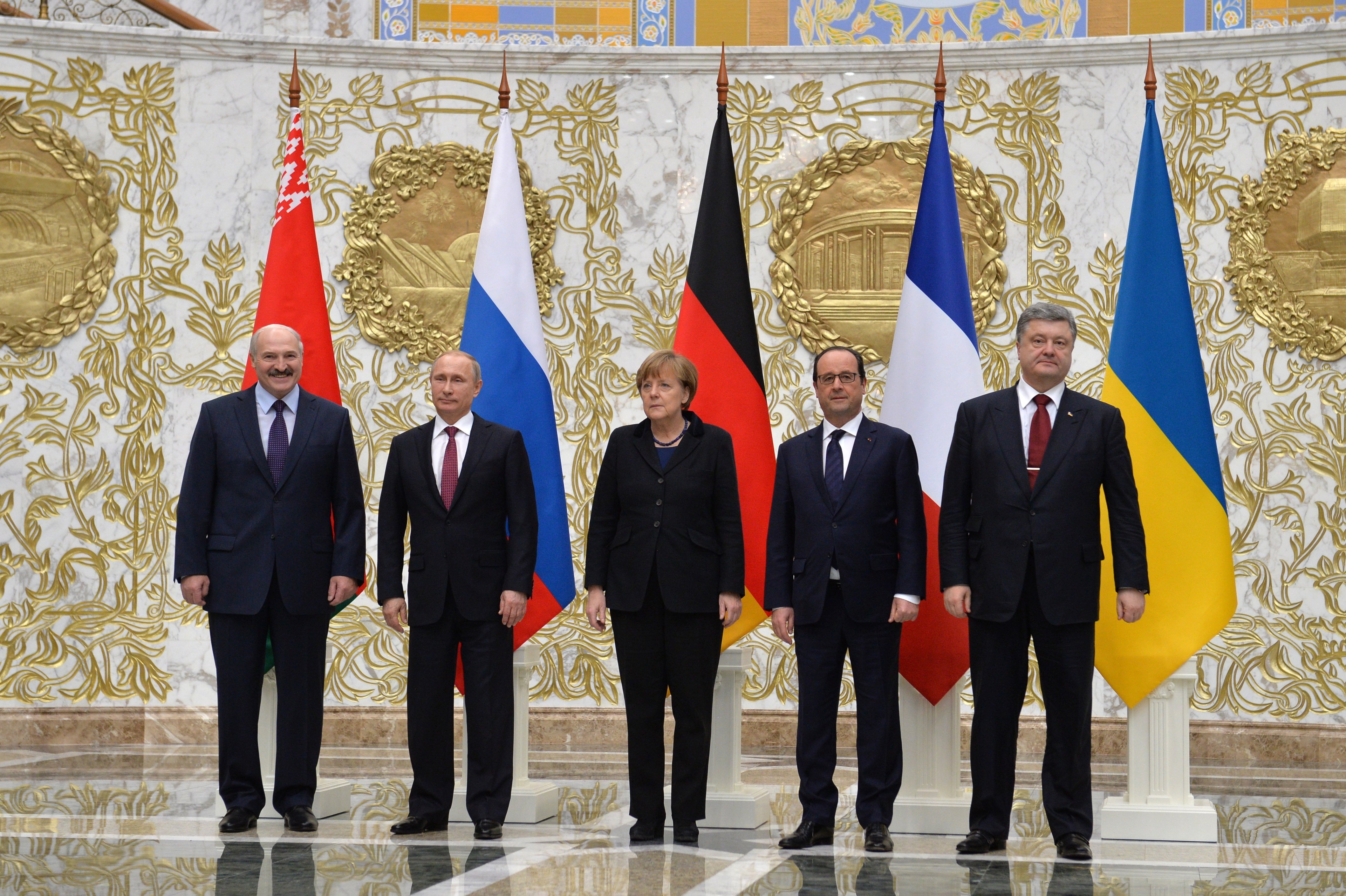 Normandy format talks in Minsk (February 2015): Alexander Lukashenko, Vladimir Putin, Angela Merkel, Francois Hollande, and Petro Poroshenko take part in the talks on a settlement to the situation in Ukraine.